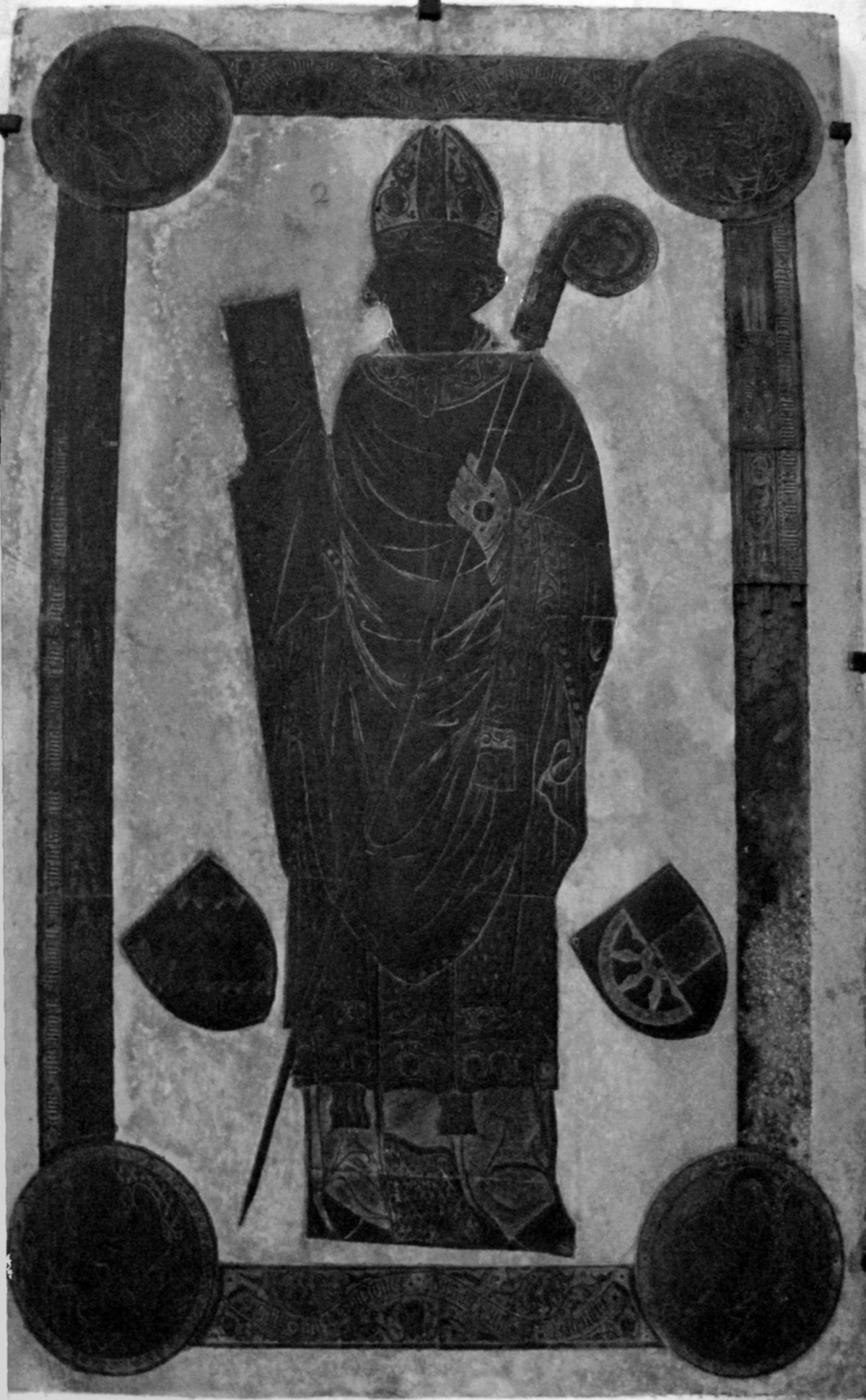 Grave stone for Bishop Bertram Cremon (+ 1377) in Lübeck Cathedral